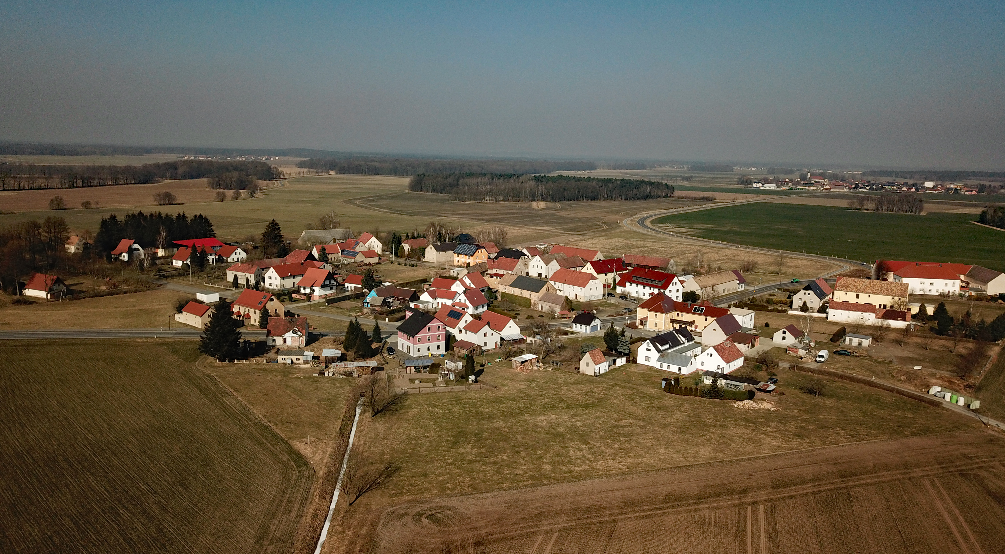 Naußlitz (Ralbitz-Rosenthal, Saxony, Germany) Hornjoserbsce: Powětrowy wobraz Nowoslic